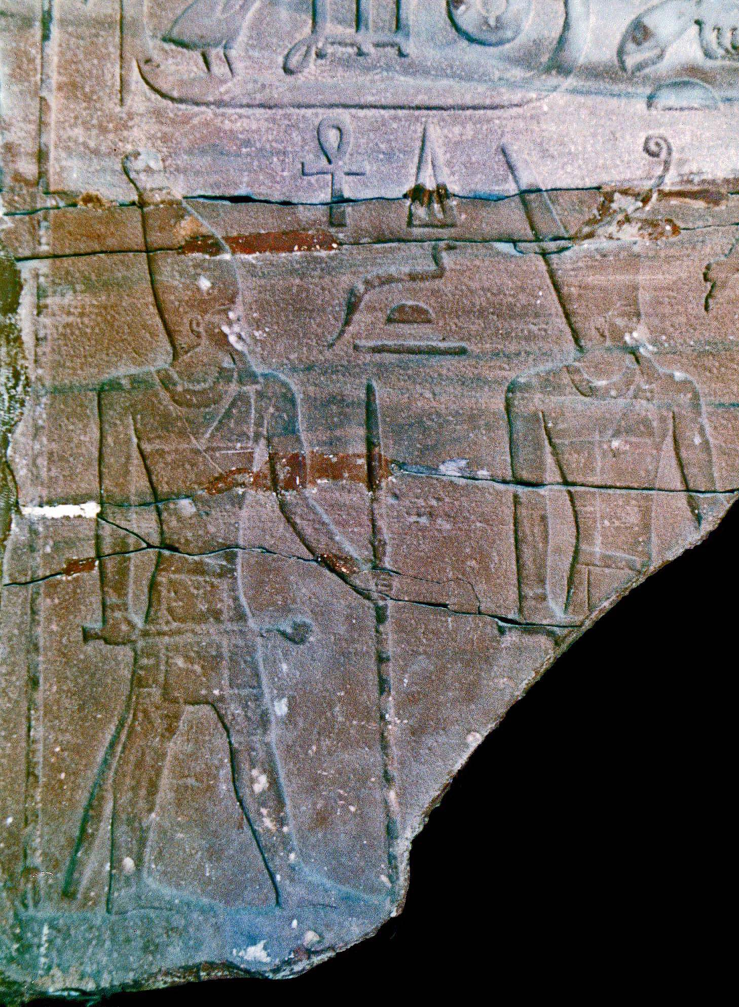 King Sahure represented in the region of Wadi Maghara, Sinai, where mines of turquoise were located. Cairo, Egyptian Museum.